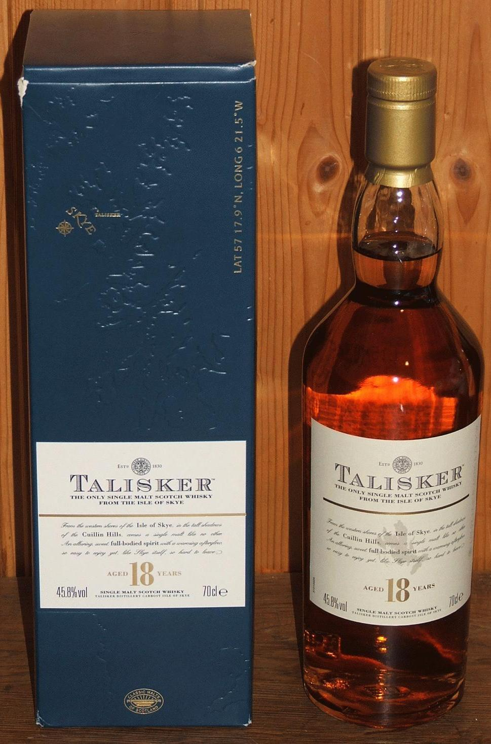 Talisker 18 years and its blue box